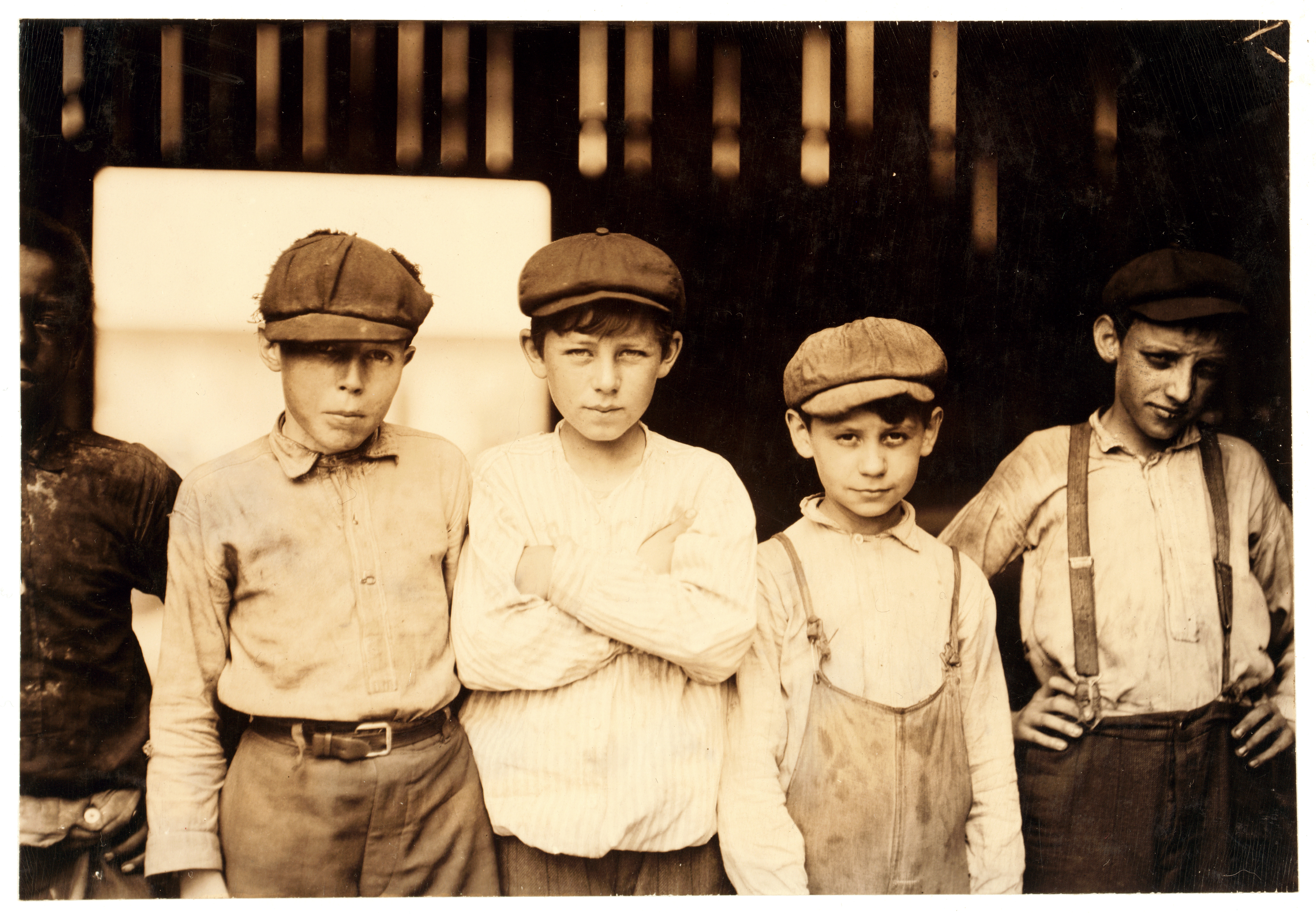 Some of the youngsters on day shift (next week on night shift) at Old Dominion Glass Co., Alexandria, Va. I counted 7 white boys and several colored boys that seemed to be under 14 years old. The youngest ones would not give names, but the following are a few: Frank Ellmore, 913 Gibbon St., apparently ten or eleven. Been there three months. Dannie Powell, 307 Columbus St. Henry O'Donnell, 1925[?] Duke St. Leslie Mason, 912 Wilke St. See also photos and labels 2260 to 2271 and report. Location: Alexandria, Virginia. Photograph by Lewis Wickes Hine, June 1911.